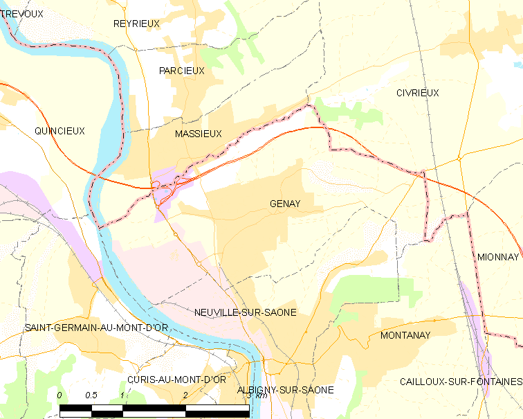 Map of French municipality